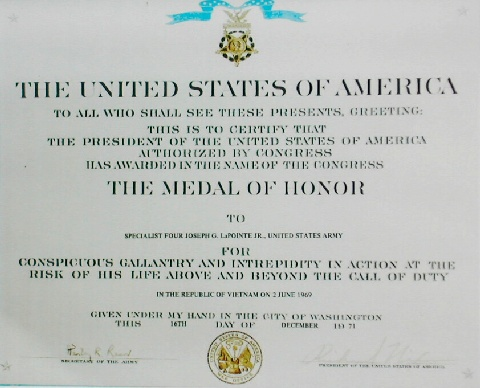 Medal of Honor Certificate, author:US Government